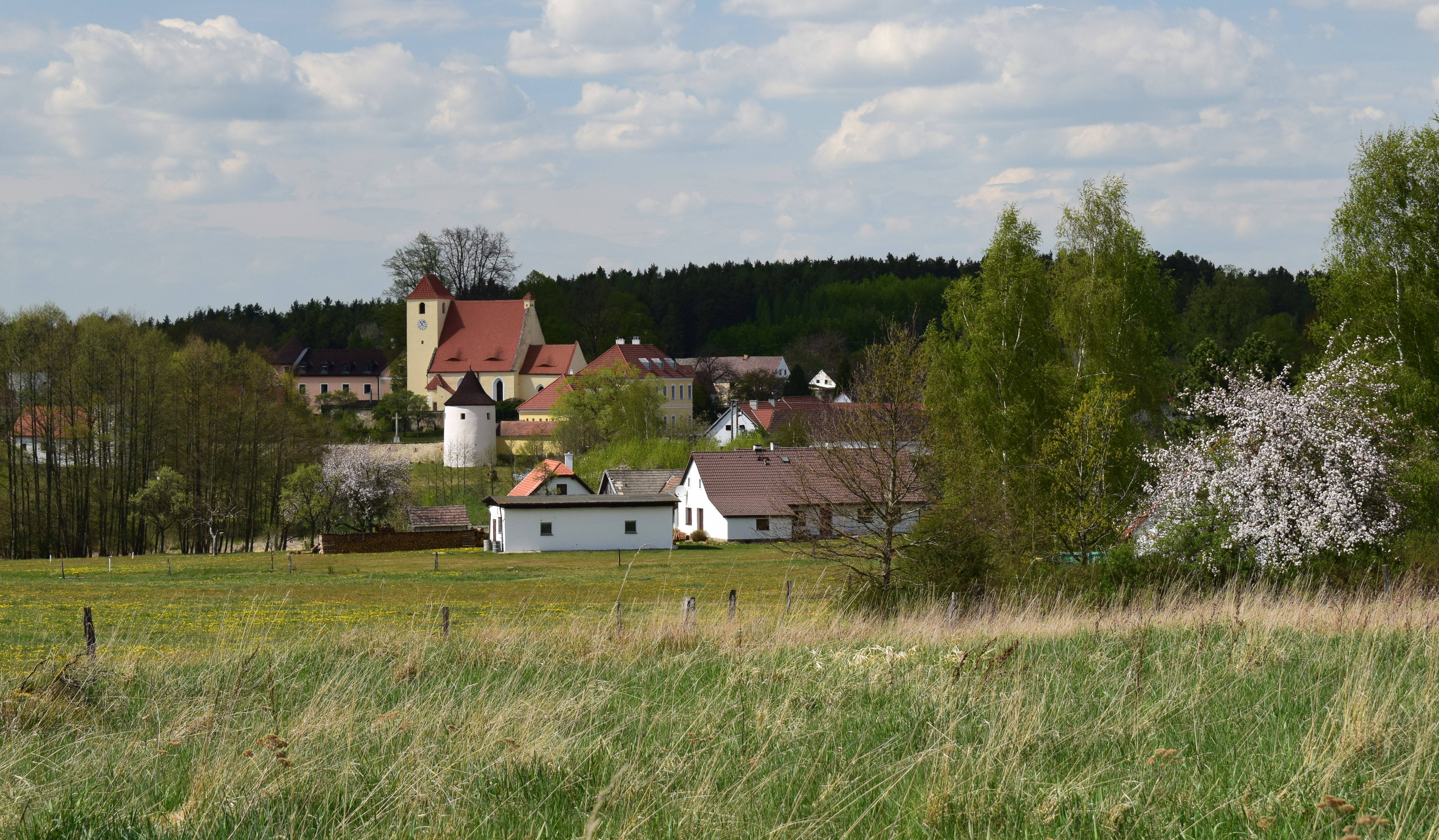 View of Žumberk from the south